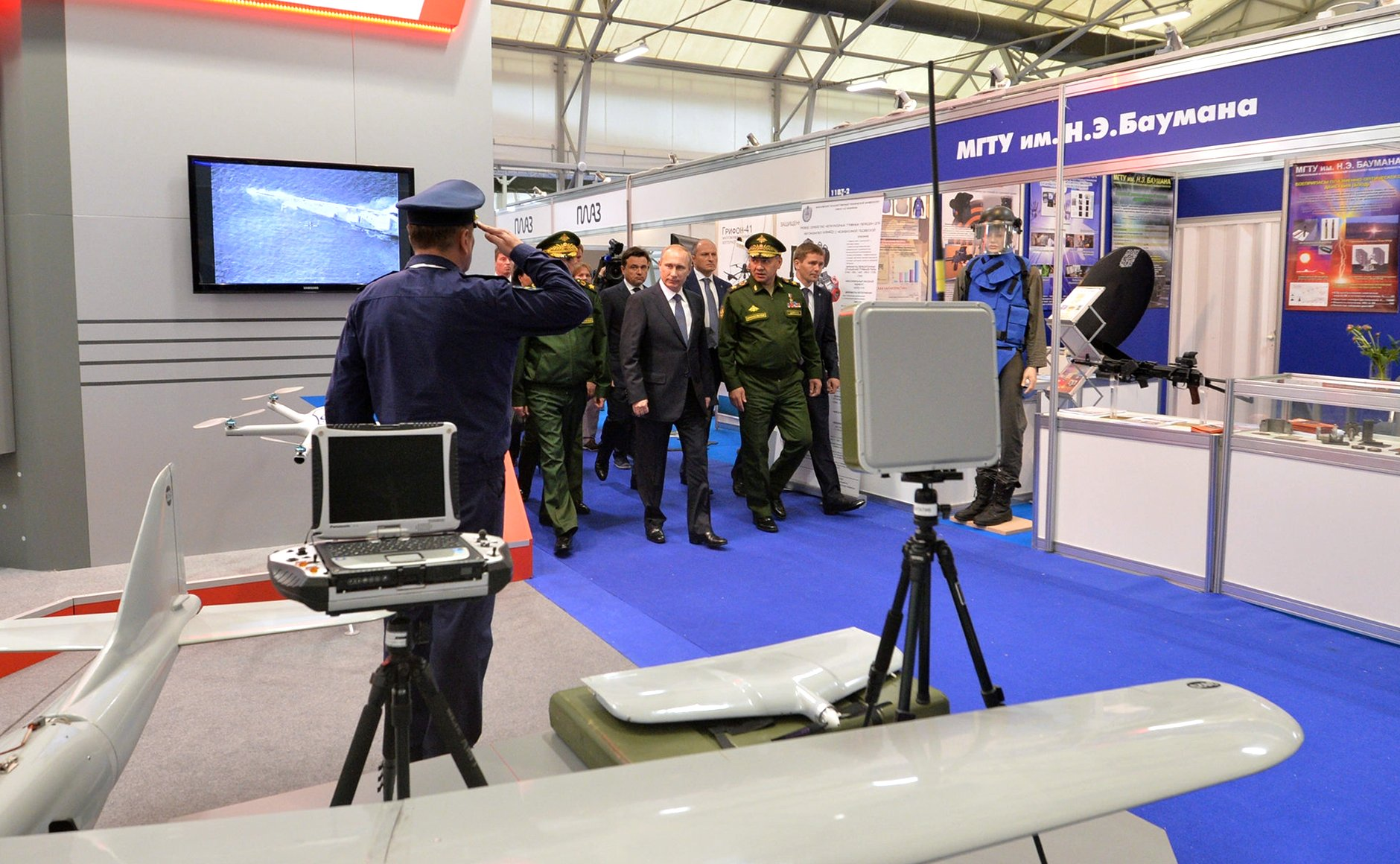 Vladimir Putin at the opening ceremony of international military-technical forum «Army-2015»